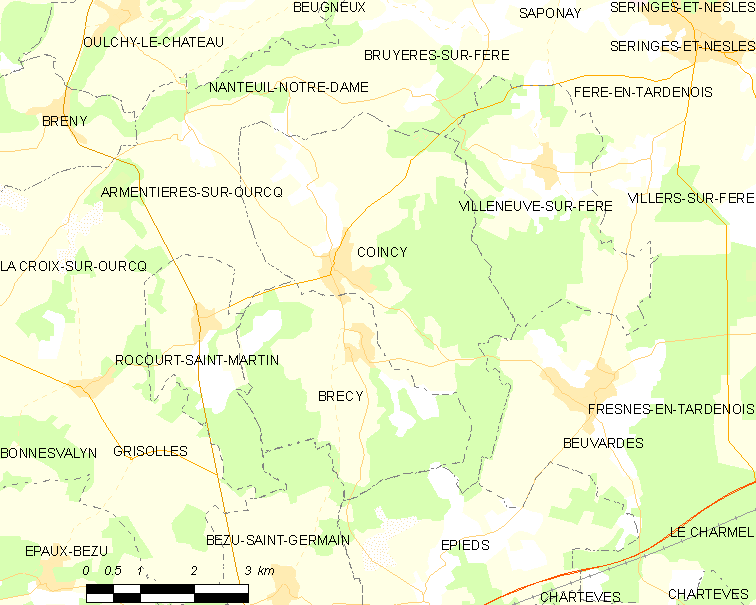 Map of French commune: Coincy Map commune FR insee code 02203.png